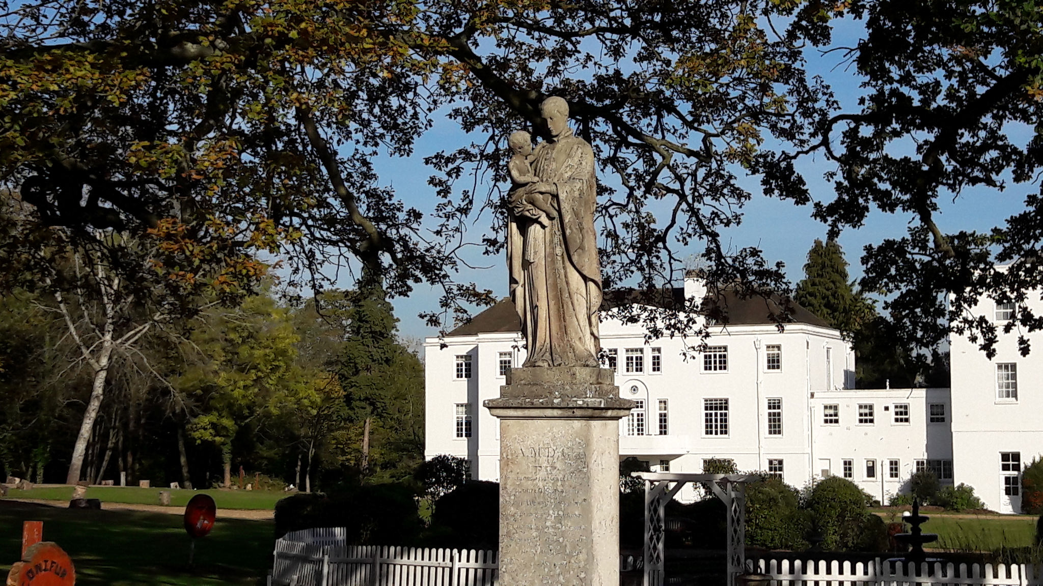 Beaumont College